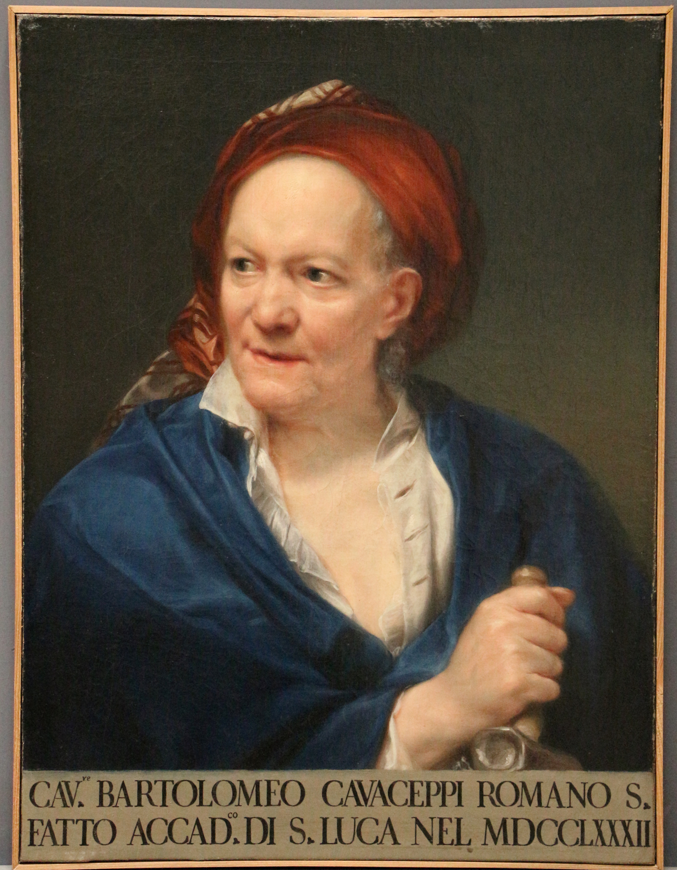 Accademia di San Luca - Gallery